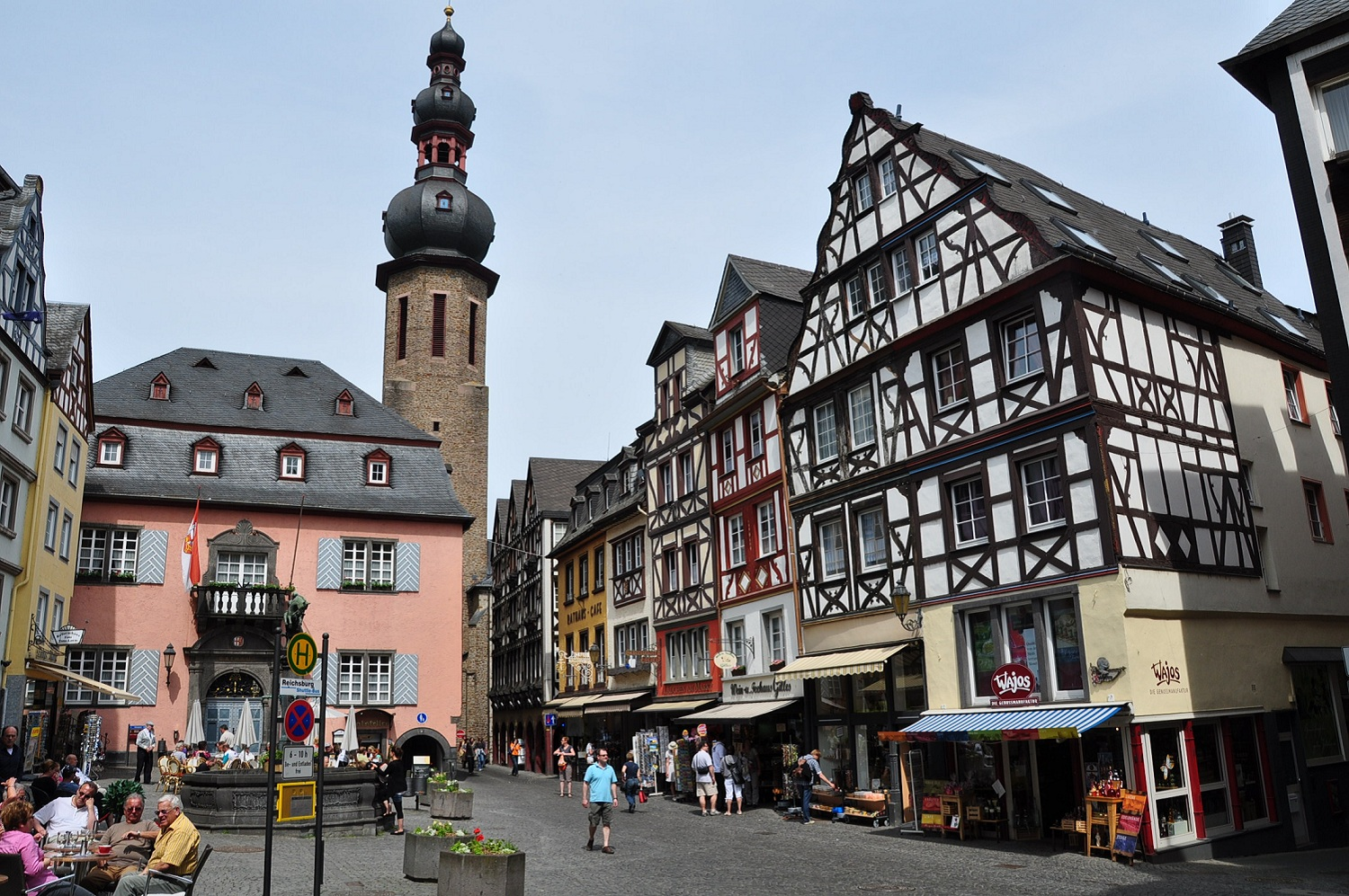 Market (main square), Cochem (Cochem-Zell district, Rhineland-Palatinate, Germany).